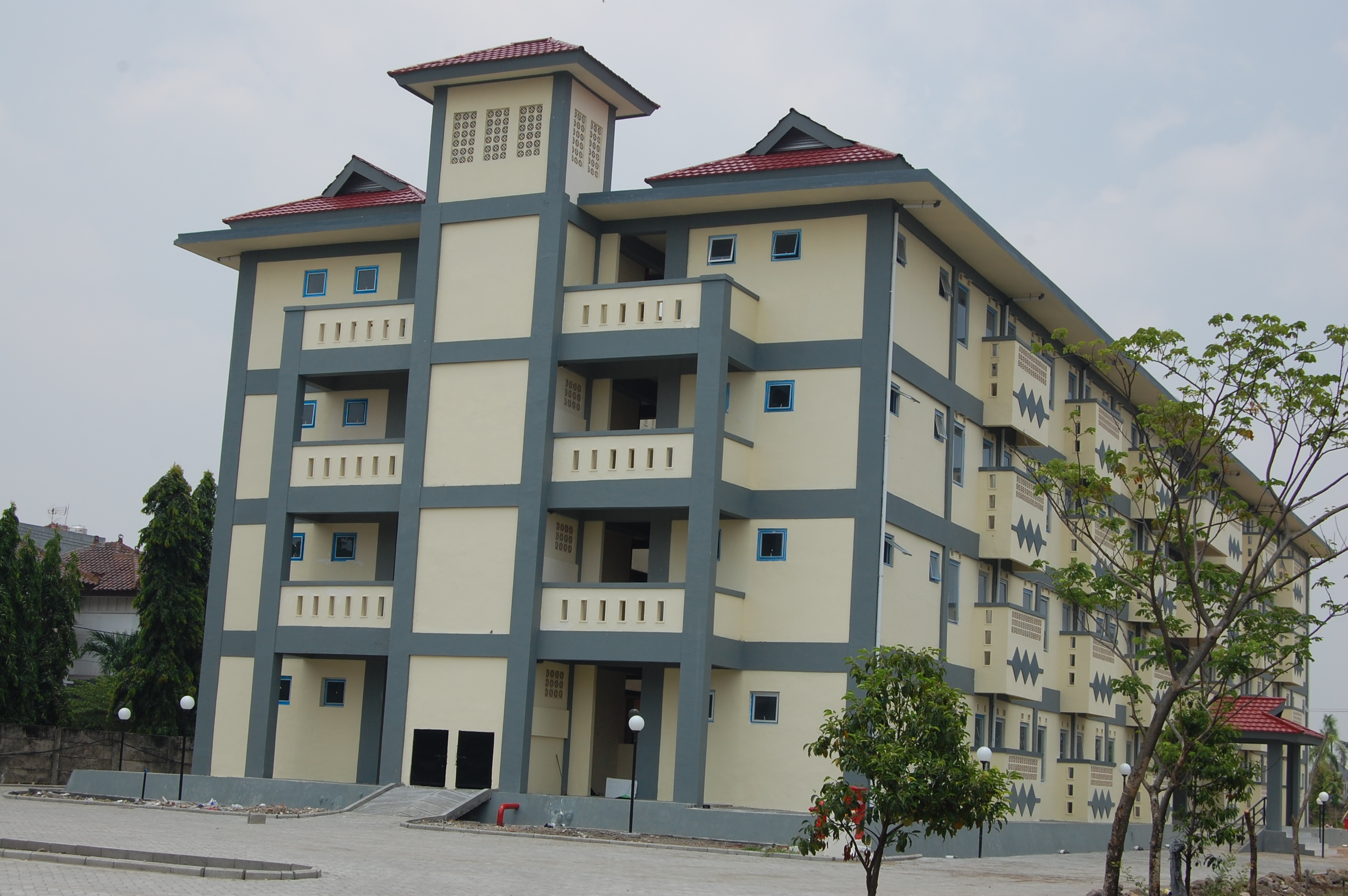 Student Dormitory of UPN Veteran East Java, Indonesia